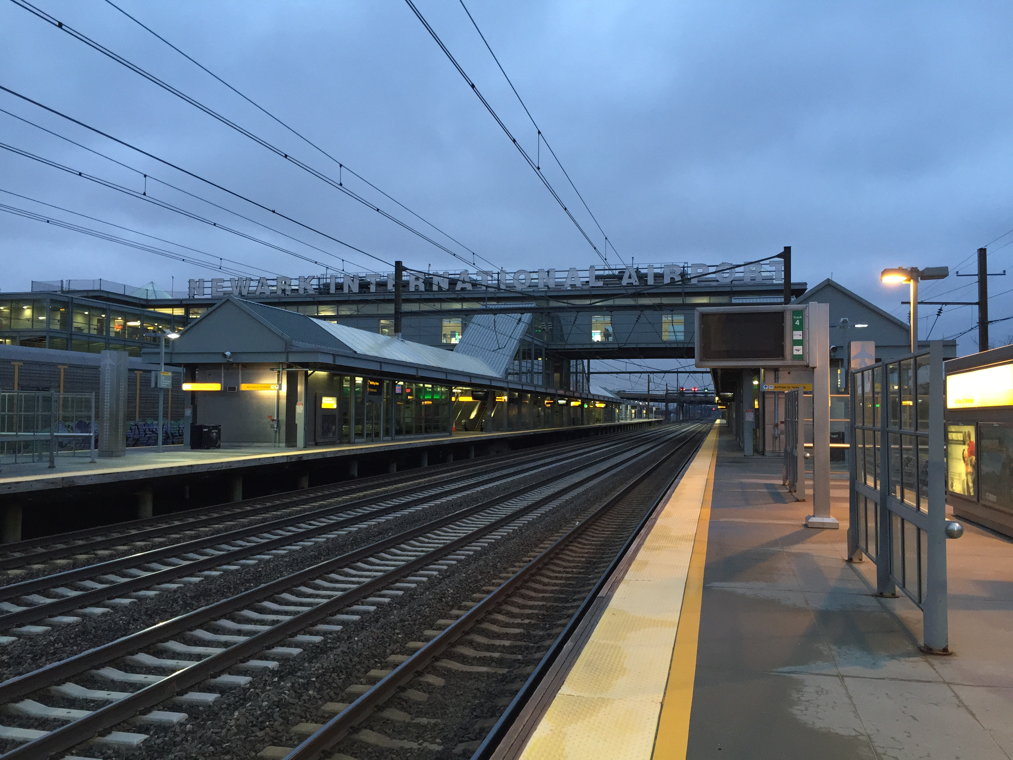 View of the Newark Liberty International Airport Train Station, New Jersey from the north